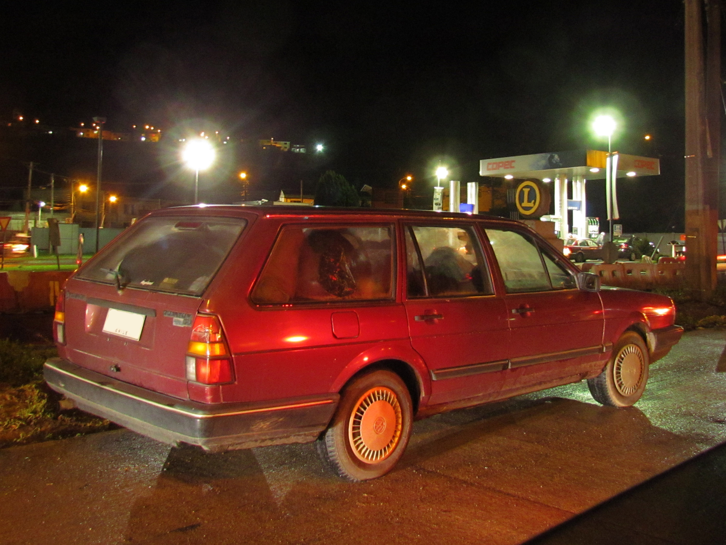 The brazilian Passat